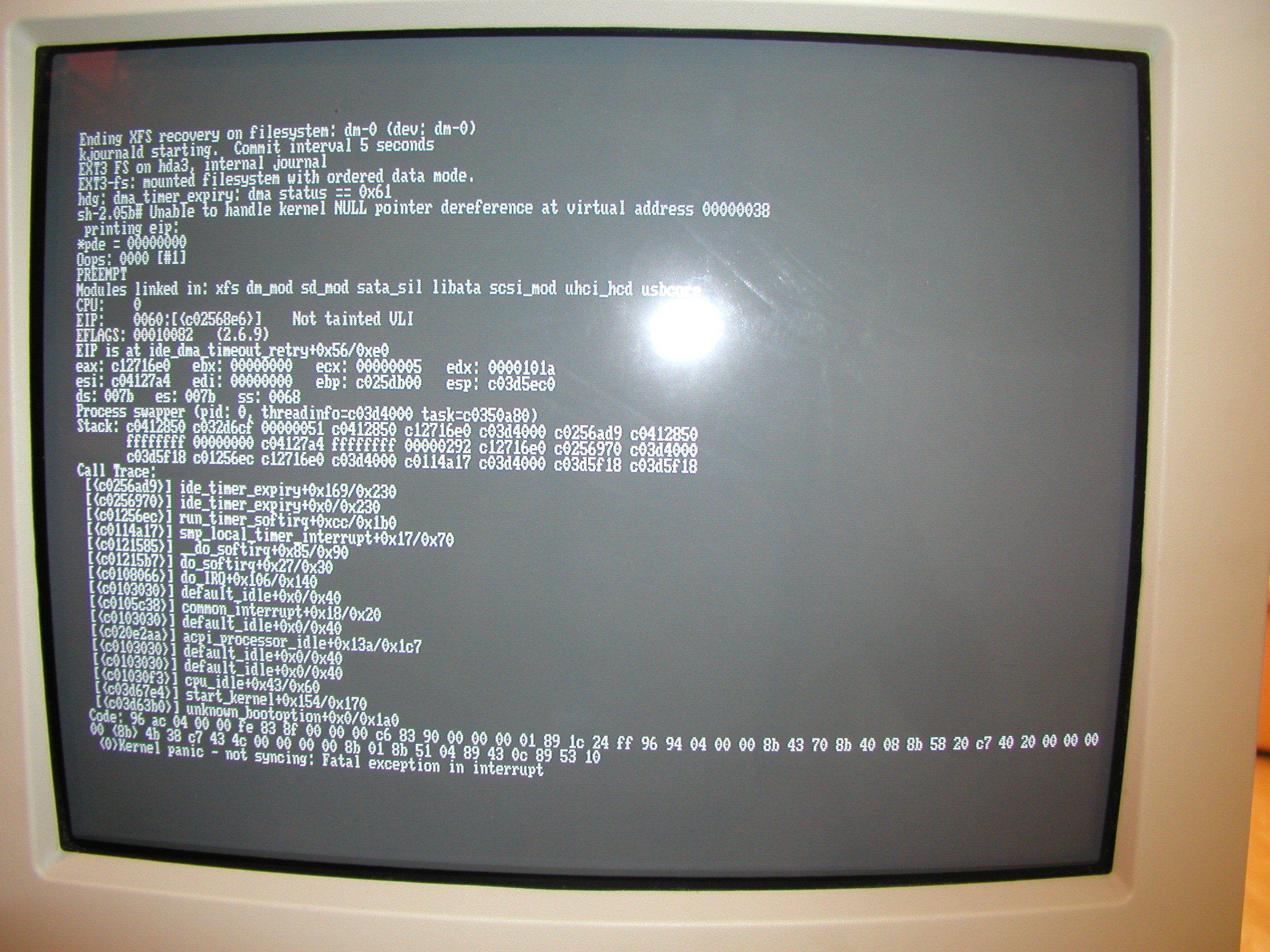 Example of kernel panic on a Linux 2.6.9 kernel. System kept crashing due to a kernel bug triggered by a failing hard disk drive.